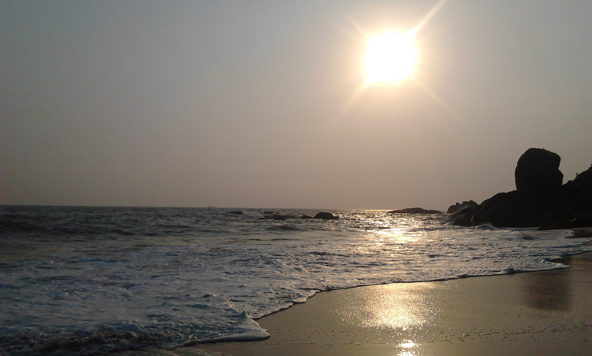 Sunset at Muttom Beach